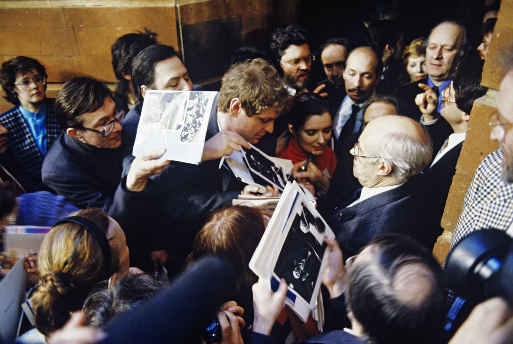 “Mstislav Rostropovich, chief conductor and artistic director of U.S. National Symphony Orchestra”. Mstislav Rostropovich, chief conductor and artistic director of the U.S. National Symphony Orchestra, after a news conference in the USSR Foreign Ministry.